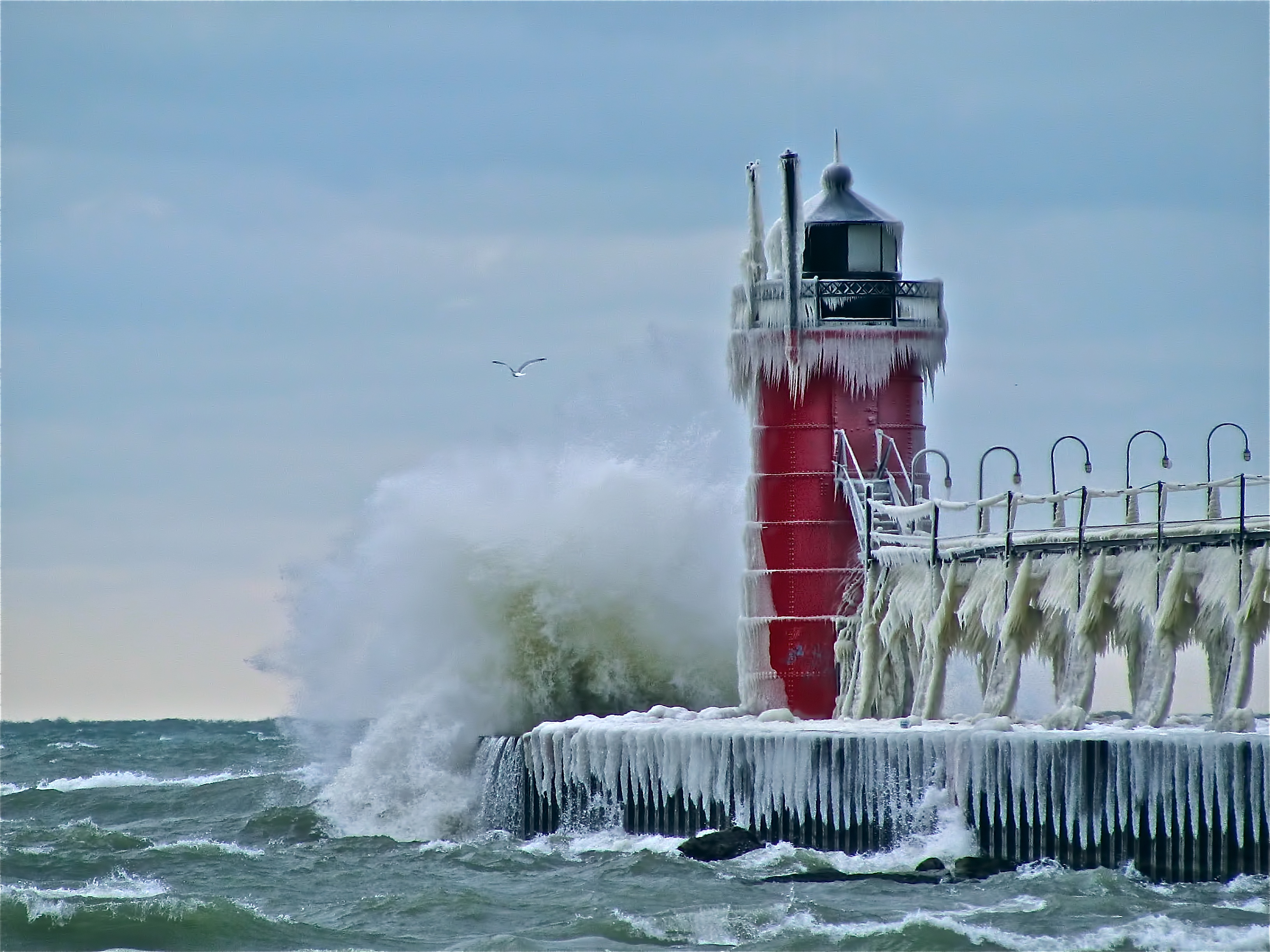 Navigation Structures at South Haven Harbor, Michigan, Mouth of the Black River at Lake Michigan South Haven